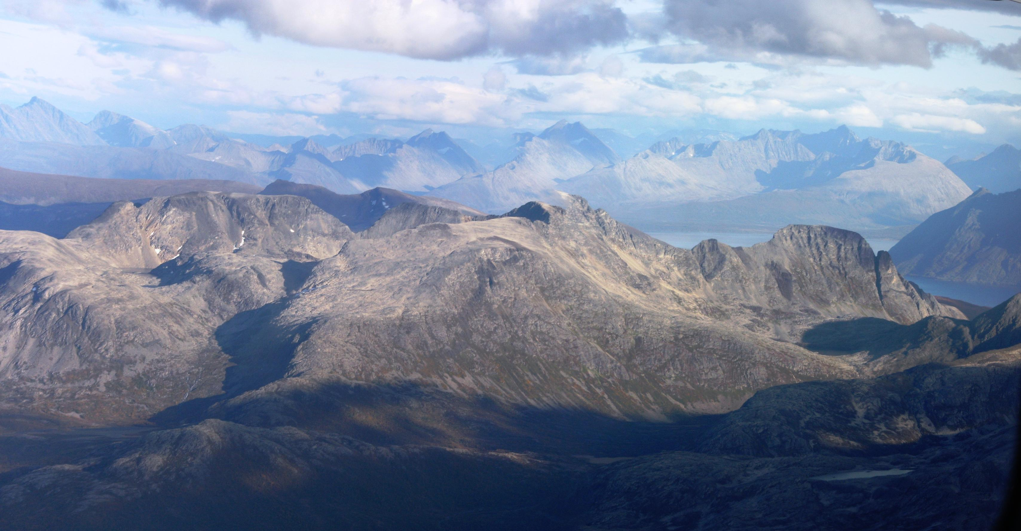 Mountains on Tromsoe municipality, Norway